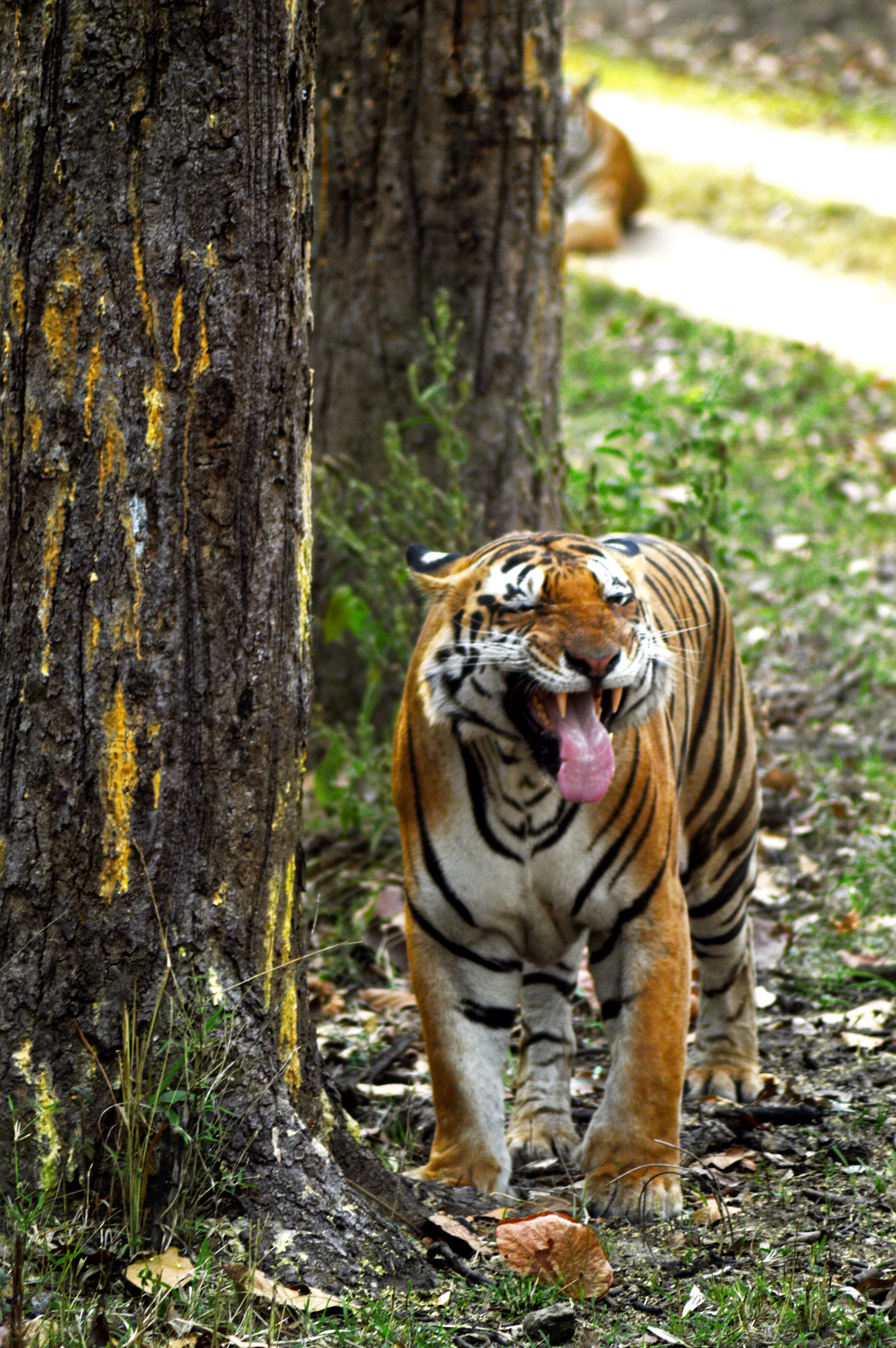 Tiger's Flehmen Response, a kind of territory marking natural response of tiger to create boundaries and warn other tigers. Taken at Kanha National Park, Madhya Pradesh.